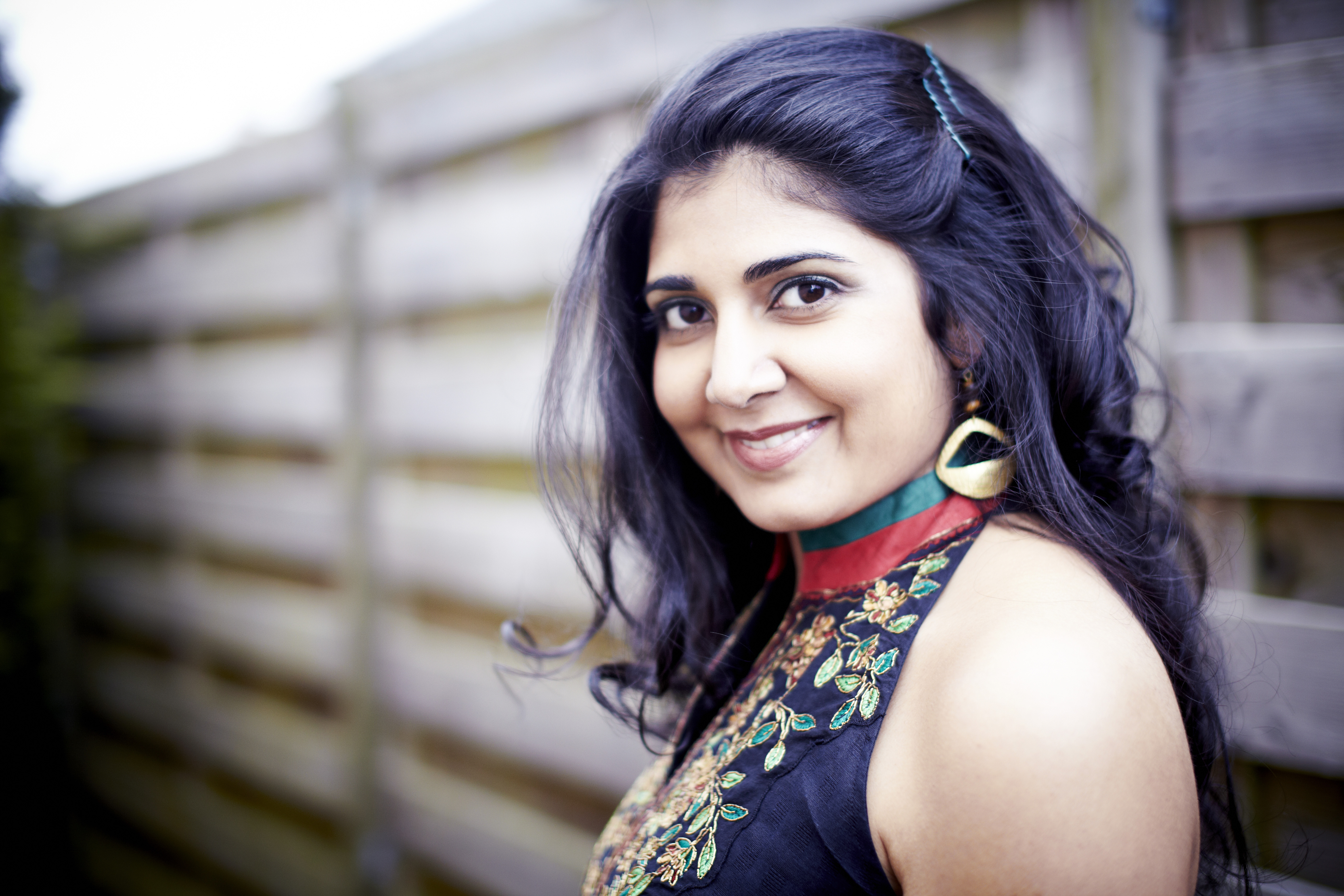 This is the portrait of the jazz singer Kavita Shah made by Julien Charpentier.